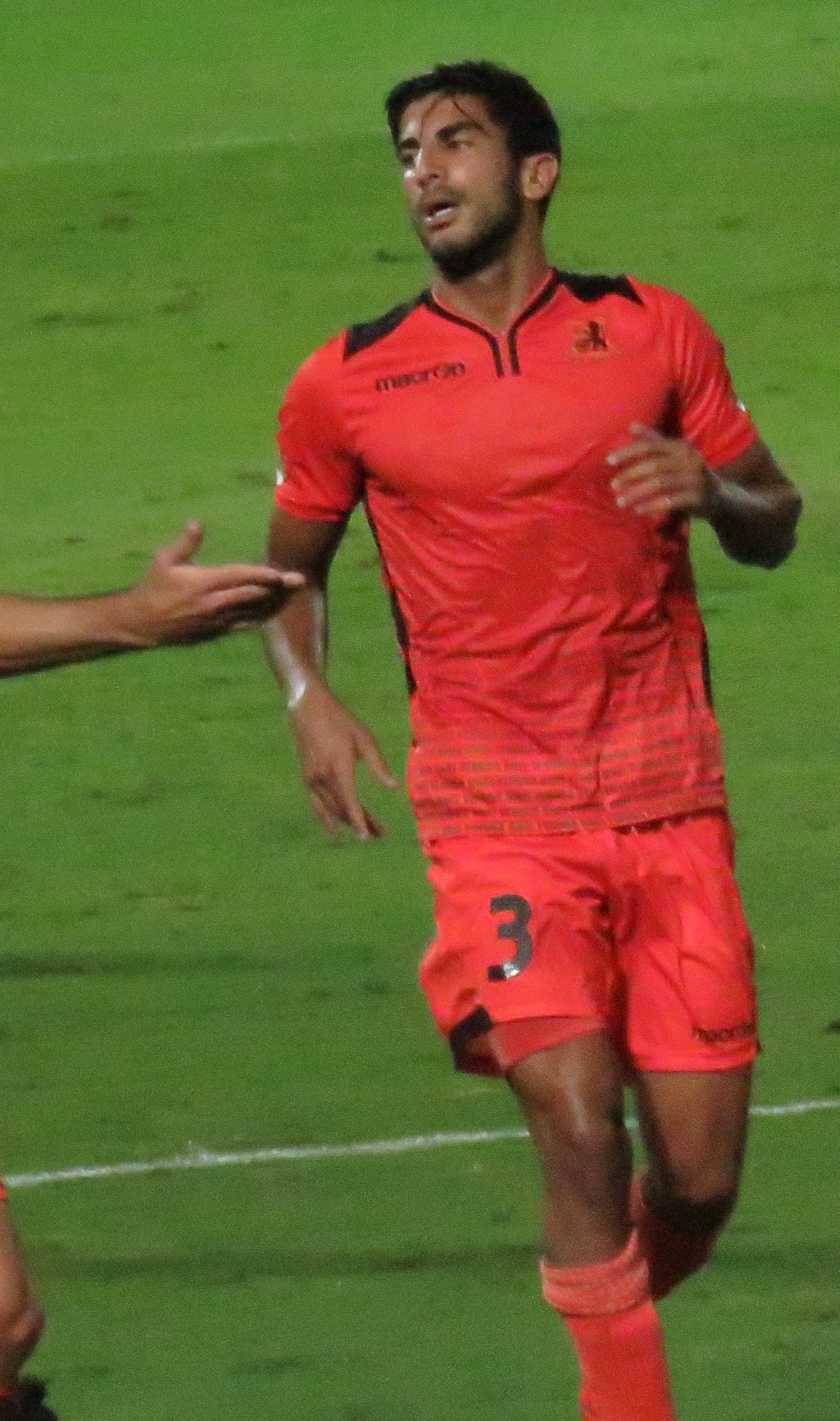 Bnei Yehuda Tel Aviv vs. Hapoel Acre - August 31, 2015